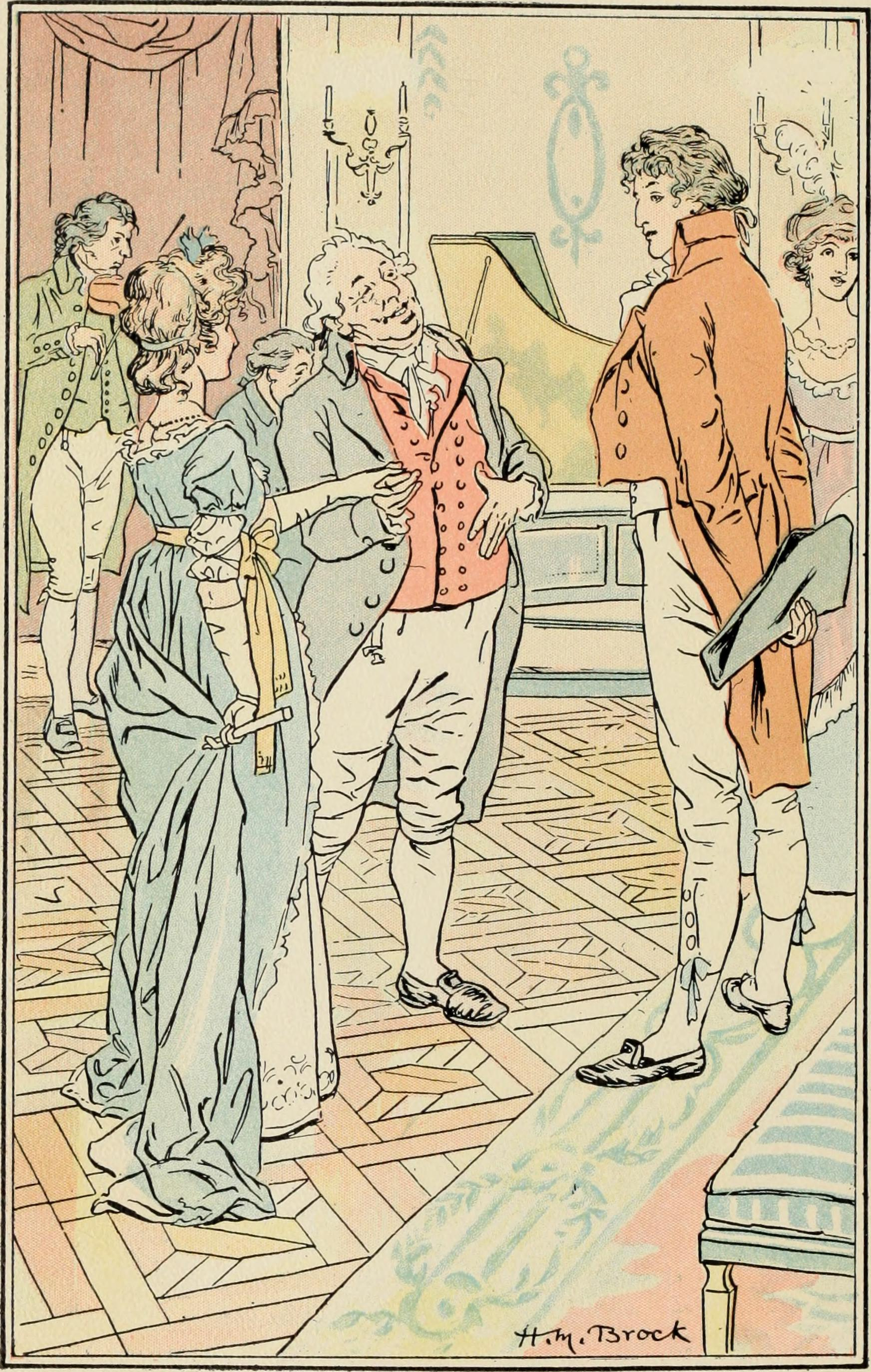 Title: The novels and letters of Jane Austen Year: 1906 (1900s) Authors: Austen, Jane, 1775-1817 Johnson, R. Brimley (Reginald Brimley), 1867-1932 Subjects: Publisher: New York : F.S. Holby Pride and Prejudice (part 1). Frontispiece. Colored illustration (1898) by H. M. Brock. Caption (printed in red next page): "Mr Darcy, you must allow me to present this young lady to you as a very desirable partner" page 38